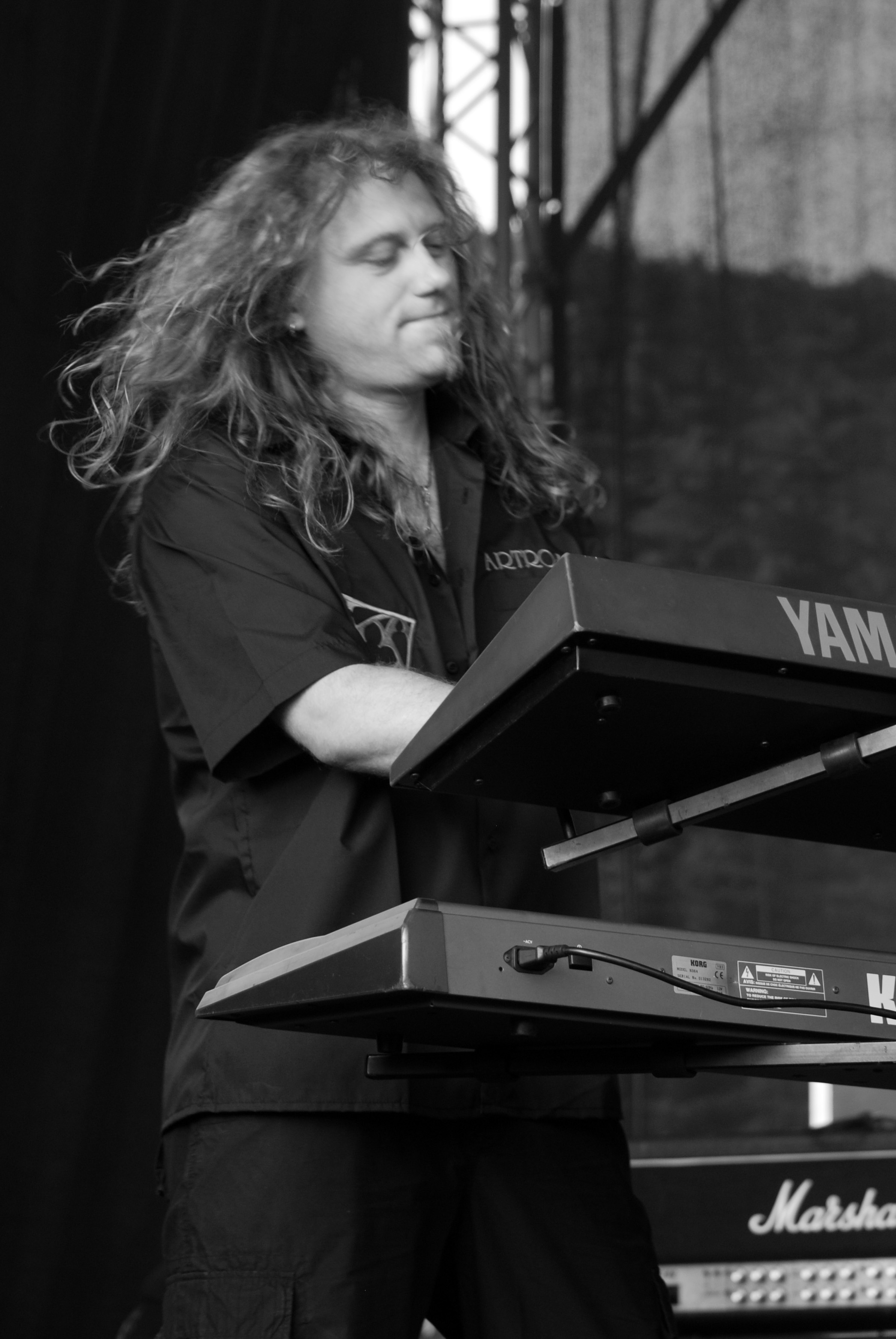 This photo was made in cooperation with CASTLE PARTY PRODUCTIONS in Bolków (webpage)